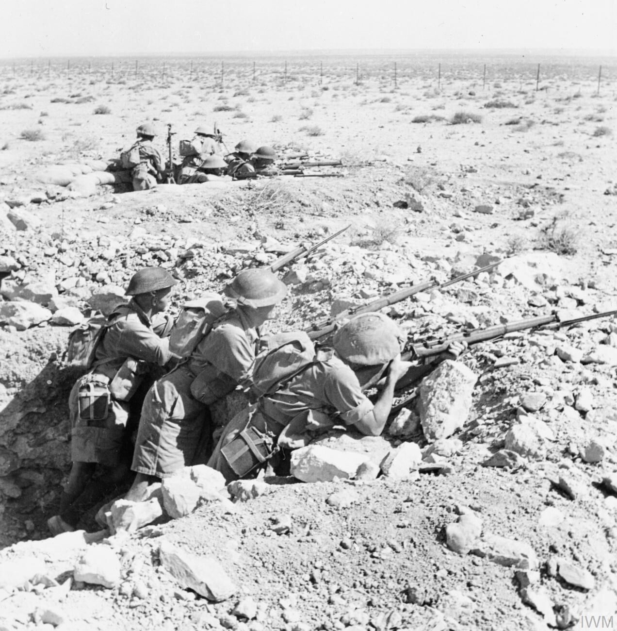 IWM caption : Australian troops occupy a front line position at Tobruk. Between April and December 1941 the Tobruk garrison, comprising British, Australian and Polish troops, was besieged by Rommel's forces. It fell to the Germans after the battle of Gazala on 21 June 1942 but was recaptured five months later. Comment : see Siege of Tobruk.